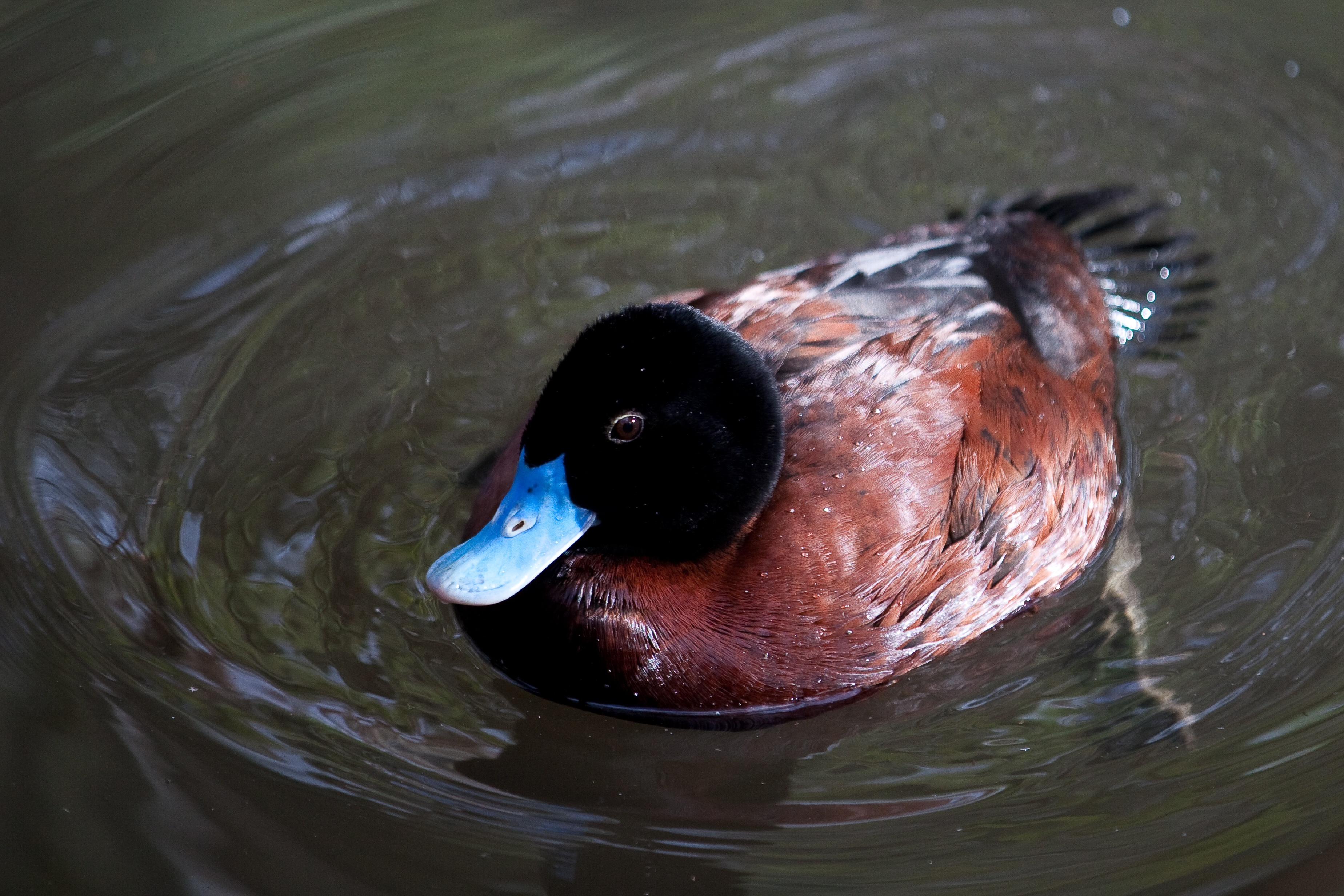 The Blue-billed Duck (Oxyura australis) is a small Australian stiff-tailed duck, with both the male and female growing to a length of 40 cm (16 in). The male has a slate-blue bill which changes to bright-blue during the breeding season, hence the duck?s common name (see photo). The male has deep chestnut plumage during breeding season, reverting to a dark grey. The female retains black plumage with brown tips all year round. The duck is endemic to Australia's temperate regions, inhabiting natural inland wetlands and also artificial wetlands such as sewage ponds in large numbers. It can be difficult to observe due to its cryptic nature during its breeding season through autumn and winter. The male duck exhibits a complex mating ritual. The blue-billed duck is omnivorous, with a preference for small aquatic invertebrates. BirdLife International has classified this species as Near Threatened. Major threats include drainage of deep permanent wetlands, or their degradation as a result of introduced fish, peripheral cattle grazing, salinisation and lowering of ground water.